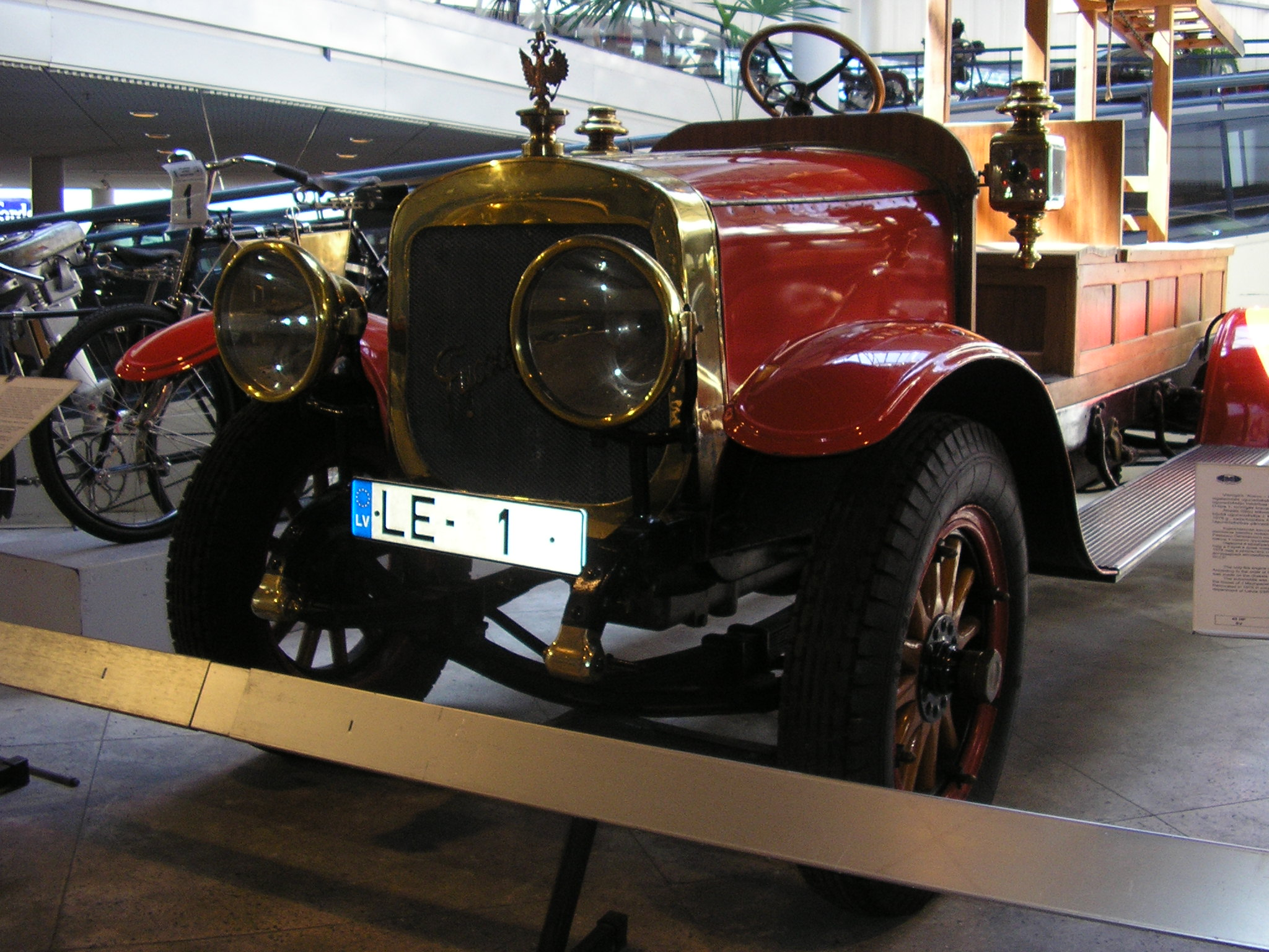 A 1912 Russo-Balt mod. "D" 24/40. This is actually the only fire engine made by the Russo-Balt factory. It is based on the 1 ton truck chassis and was ordered by Riga Peter's Fire Fighters Association. It was found as scrap metal and was dissassembled in the home of former fire fighter J. Mezhpapans in Rauna in 1976. In 1978 it was renovated by AAK and the fire department of Latvia SSR. It is powered by a 4501 cc, four cylinder, 40 hp side valve engine goving a top speed of 40 km/h.